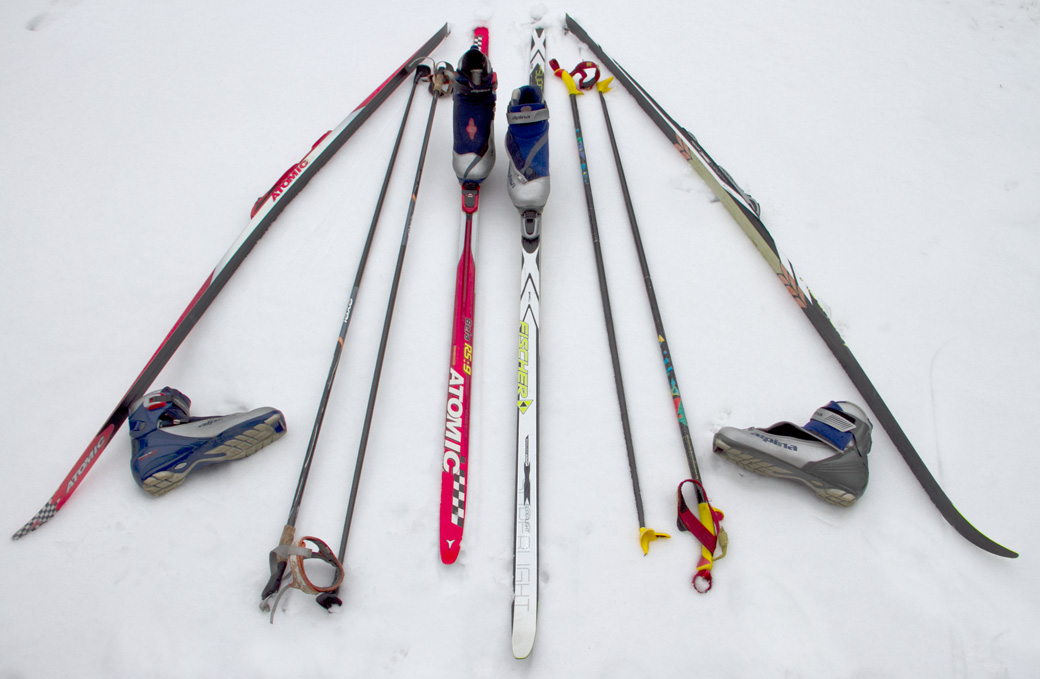 Cross-country skis, boots, bindings and poles for skate-skiing (left) and classic-style skiing (right). Note the difference in ski and pole lengths for each. Note also the grip zone on the classic skis.